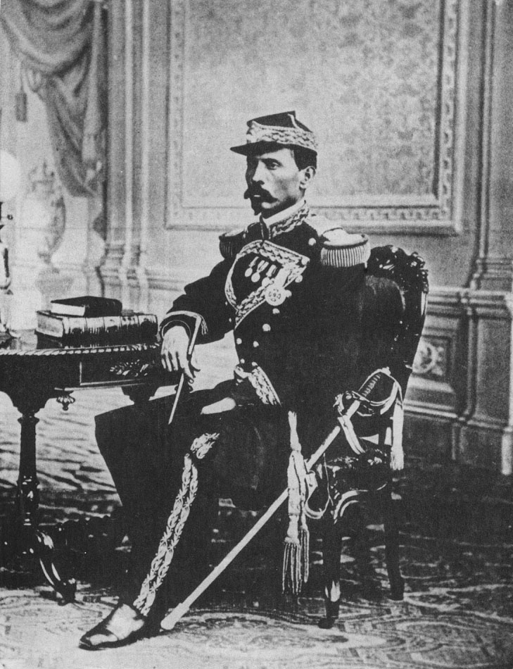 Porfirio Díaz (1830-1915), full-length portrait, seated, facing front, former president of Mexico.